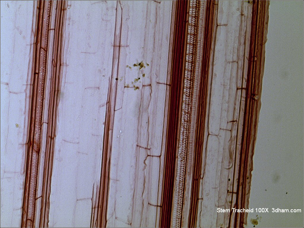 The Tracheids are elongated cells the transport fluids within the plant.